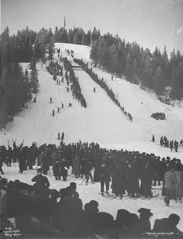 Konnerudkollen ski jumping hill in Konnerud near Drammen, Norway